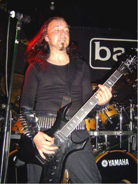 Rune Erickson aka Blasphemer from band Mayhem